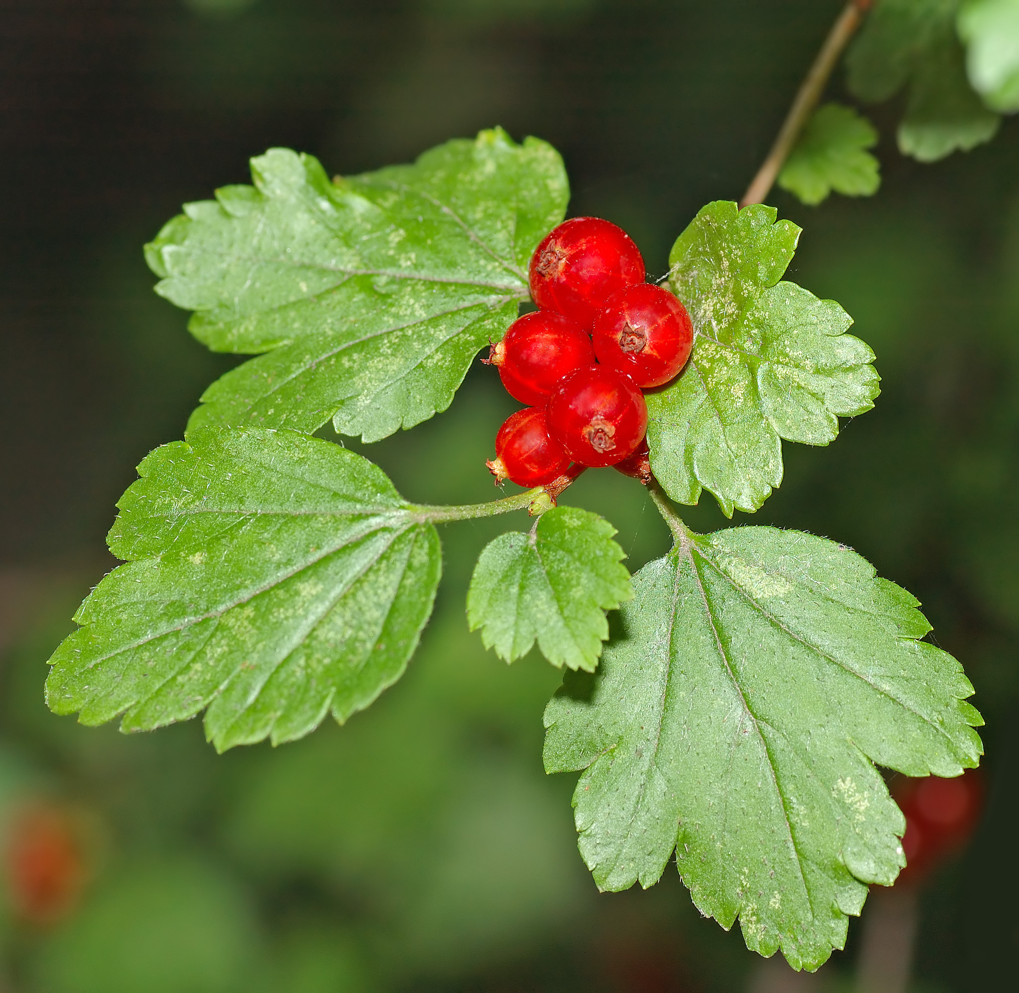 This image shows a few Alpine currant berries (Ribes alpinum). Thanks to Franz Xaver for identifying this plant.